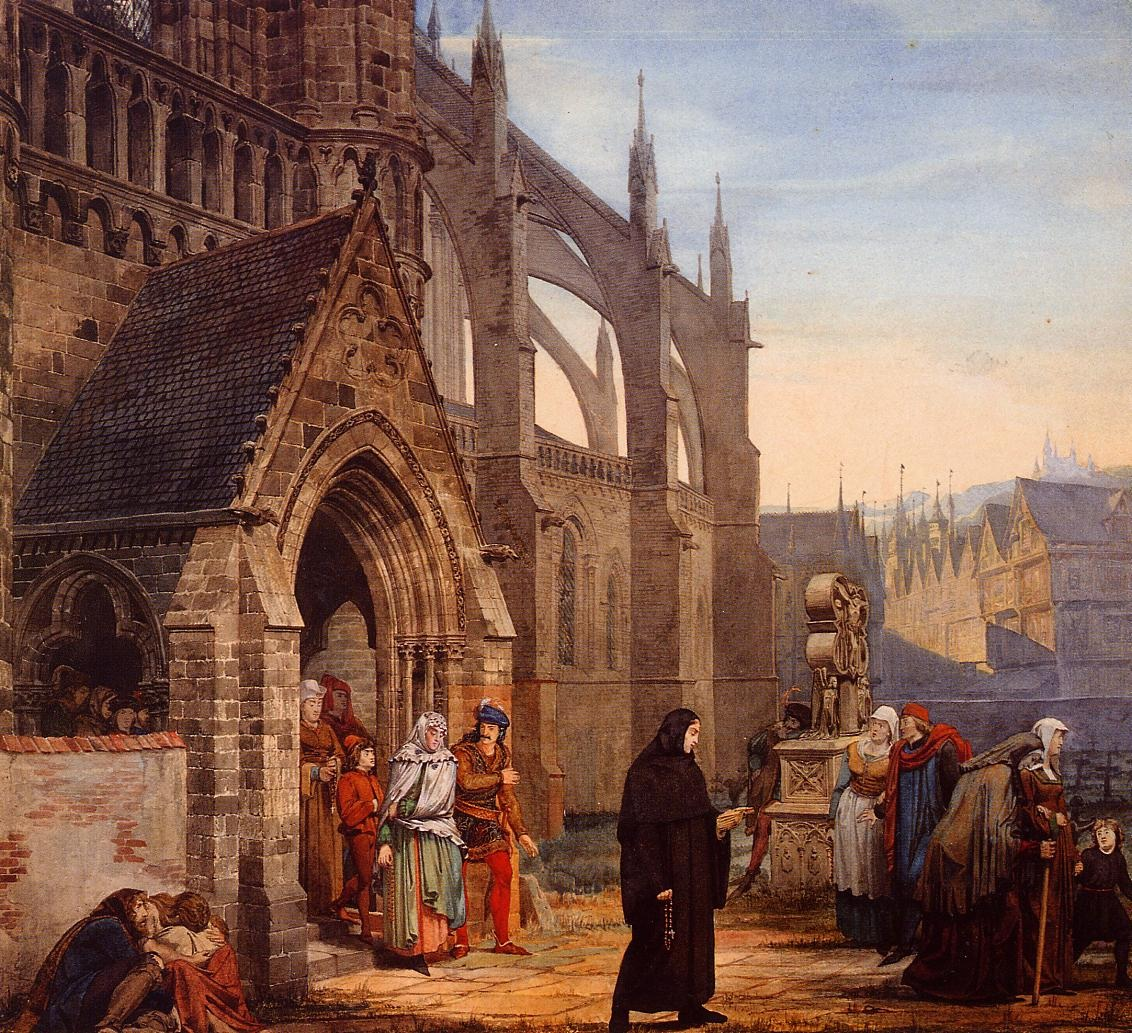 Lawrence Alma-Tadema's art